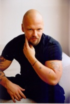 Picture of Renzo Aneröd